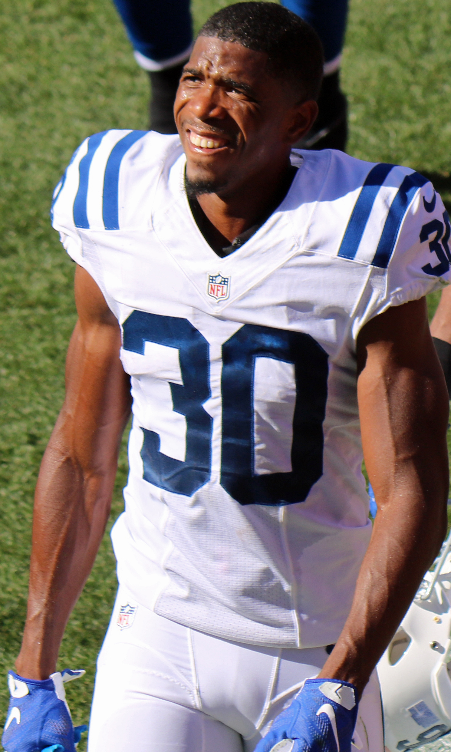 Rashaan Melvin, a player on the National Football League.